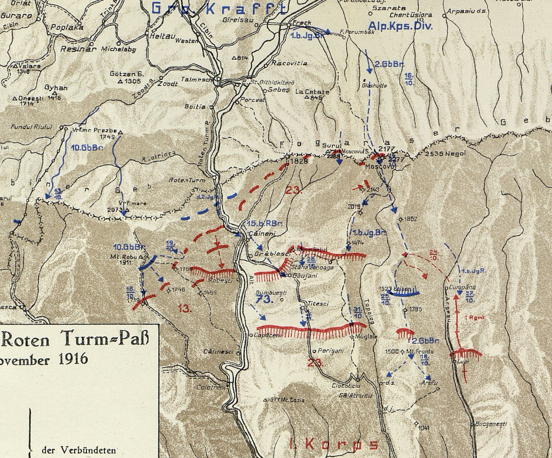 Romanian Front in WWI - The first phase of the battle from Valea Oltului, october 1916